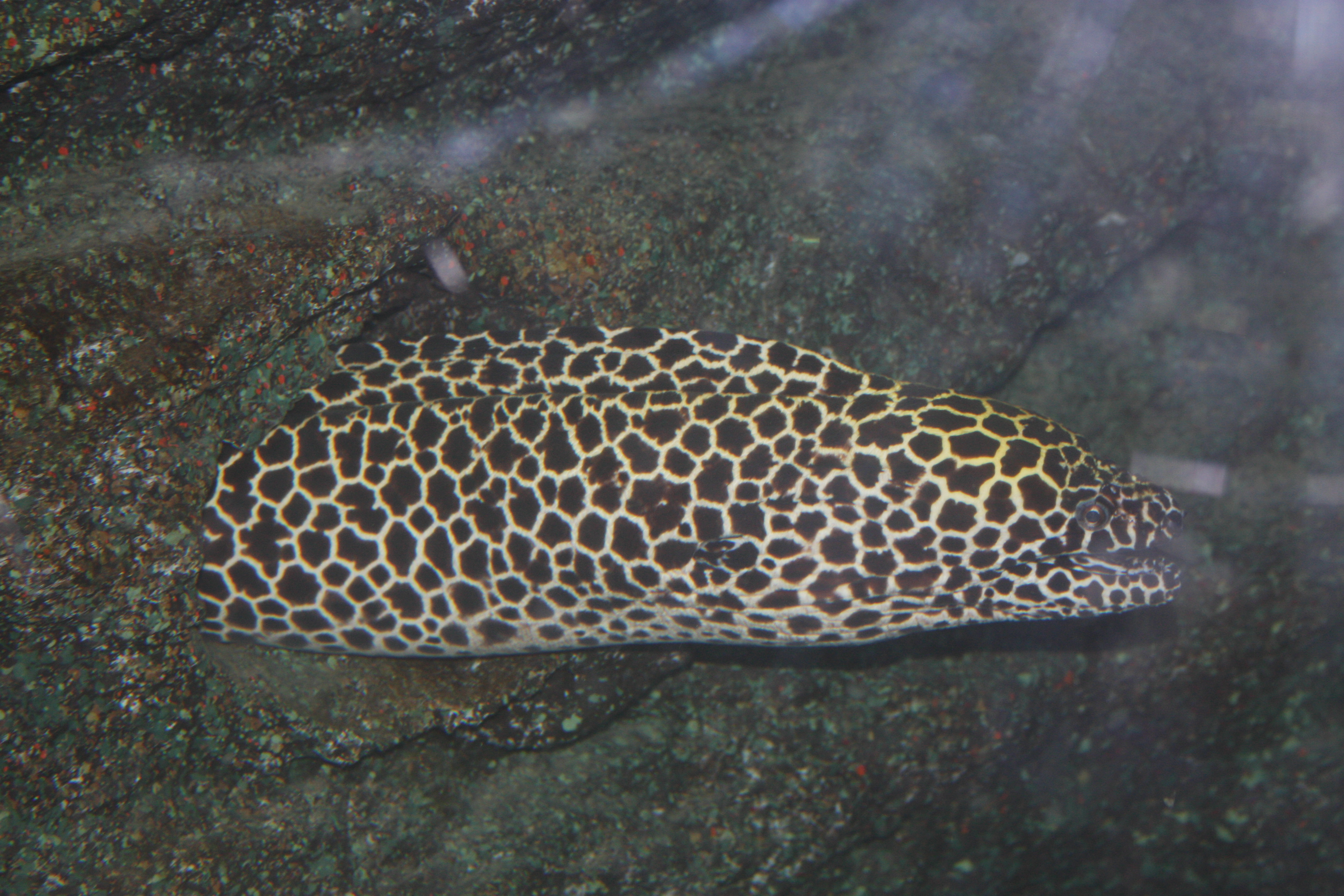 Gymnothorax favagineus photo from Siam centre, Bangkok